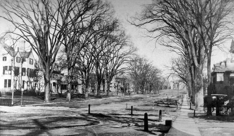 View of Hillhouse Avenue mansions in New Haven, CT. Photo taken from Trumbell Street intersection, facing north. At the top of the hill is Sachem's Wood, the Hillhouse family mansion.